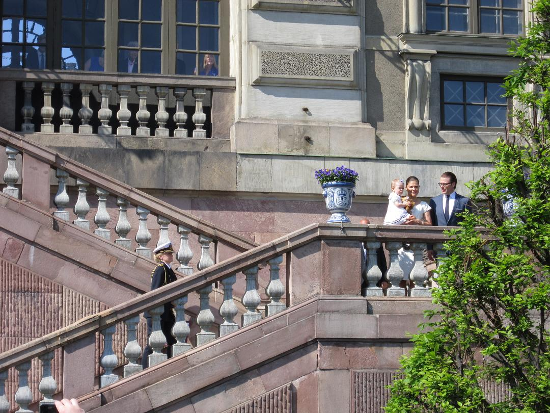 Crown Princess of Sweden with family ascends palace steps from Lynx Garden on National DayPlace: Stockholm Palace, Sweden